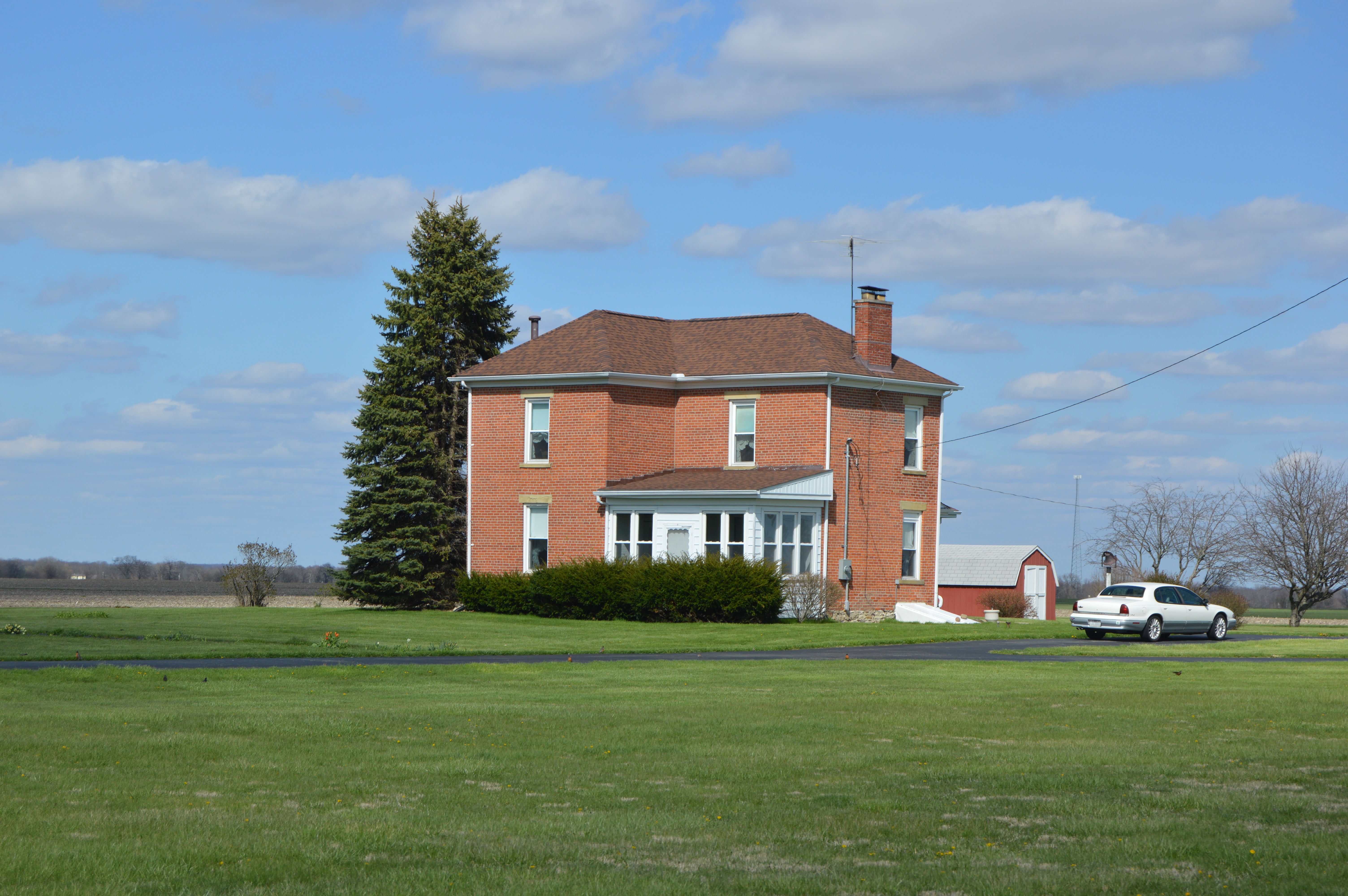 Road view of a farmhouse on Jefferson Kiousville Road south of West Jefferson in far southern Jefferson Township, Madison County, Ohio, United States. It was built in 1876.